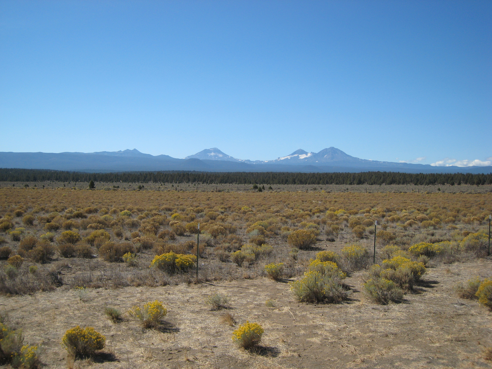 Pumice Plateau in Central Oregon near La Pine, looking west toward the cascades. I believe the yellow flowering plant is rabbitbrush.